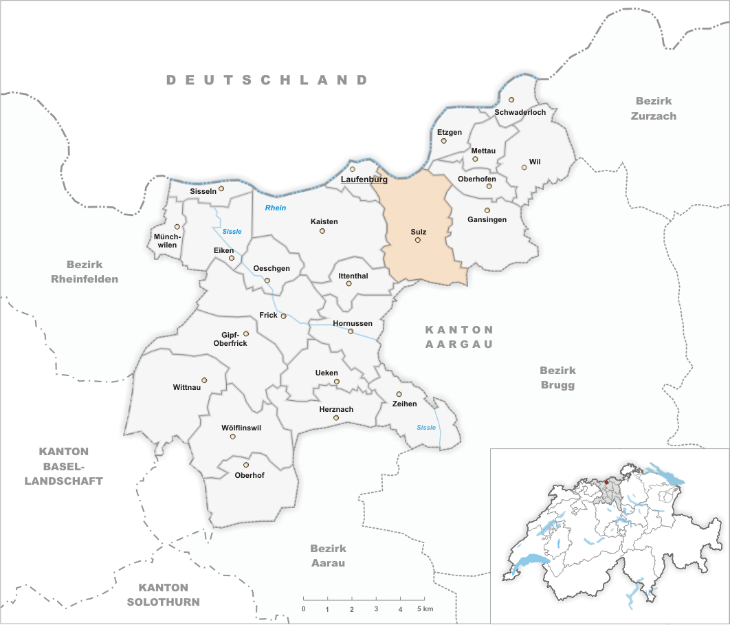 Municipality Sulz